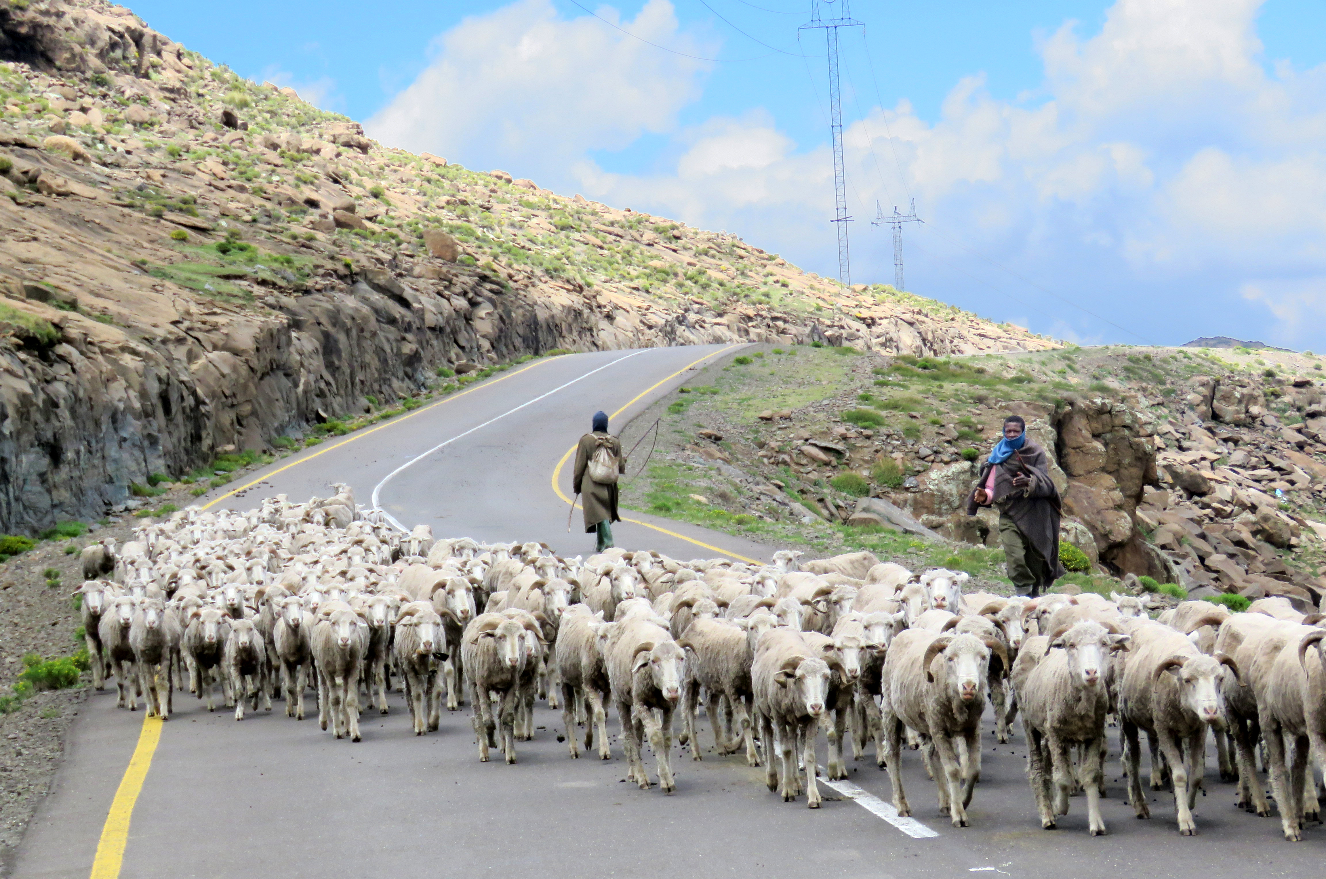 On a high mountain pass in Lesotho, Shepherds herd their flocks from pastor to kraal. These men live up here in isolation for days and weeks at a time. This is an image of "African people at work" from Lesotho